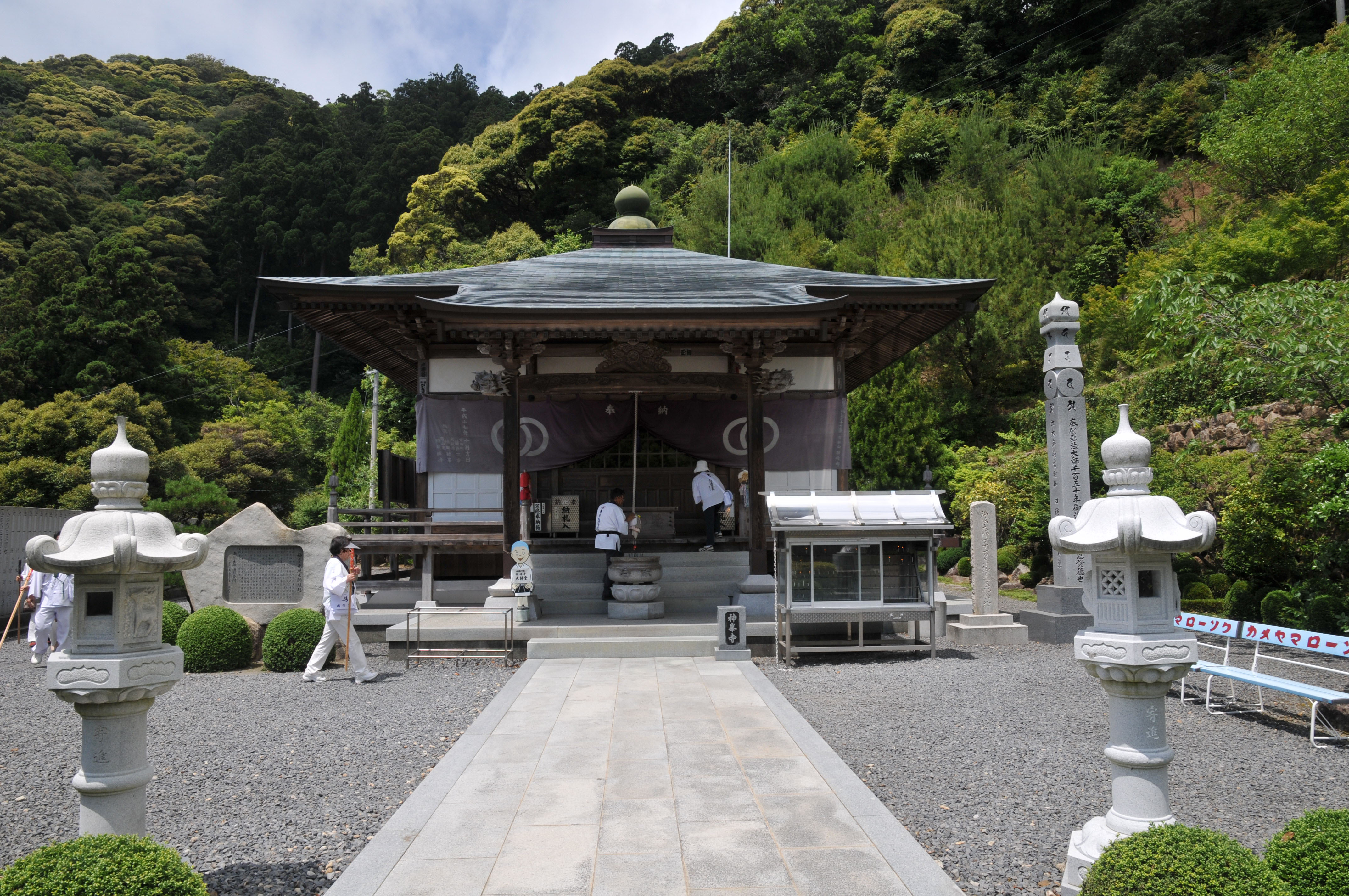 Daishi-dō, Kounomine-ji